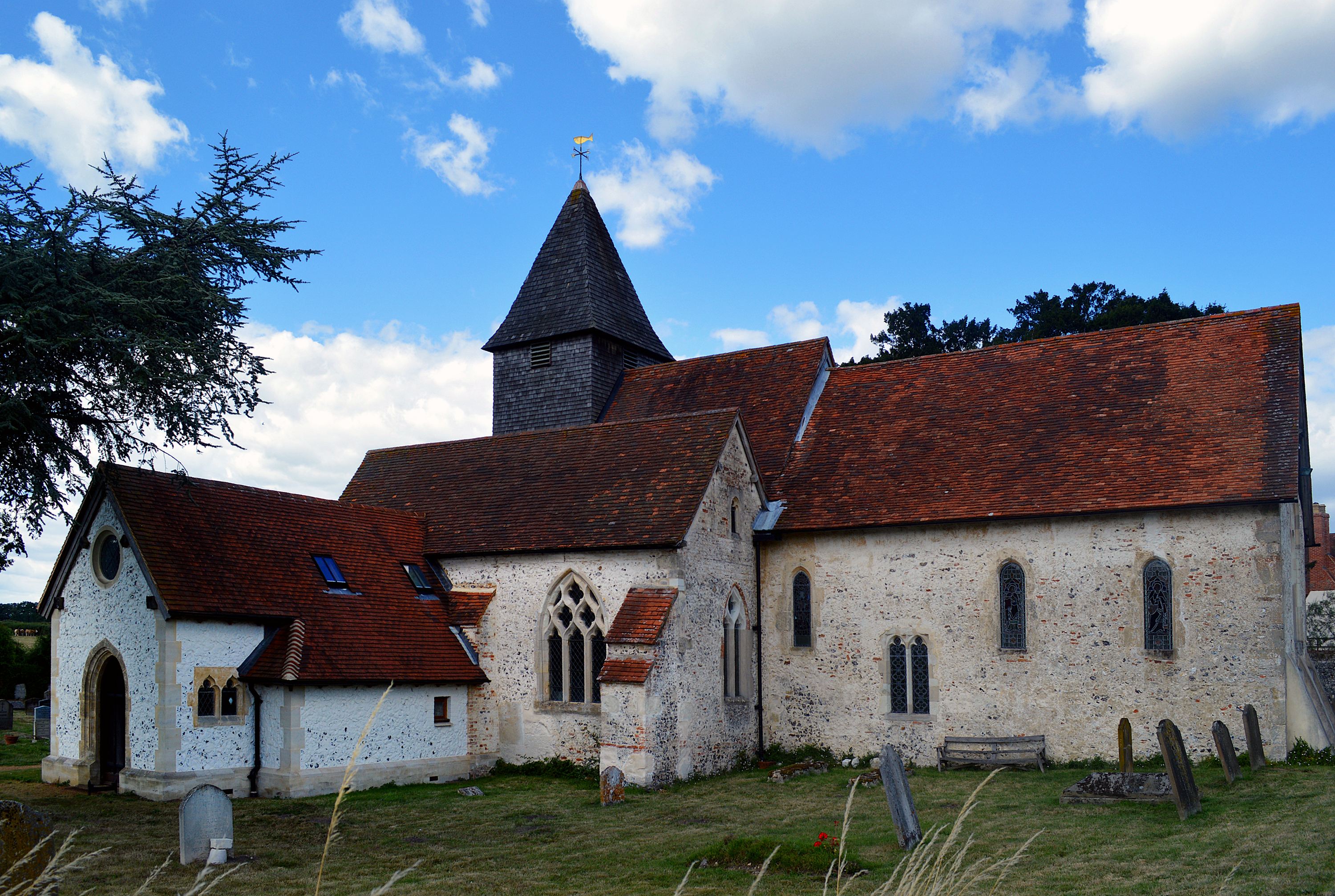 Church of St. Mary